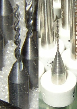 Two PCB drill bits. I took this photo myself, of my drill bits, and release it under the GFDL.